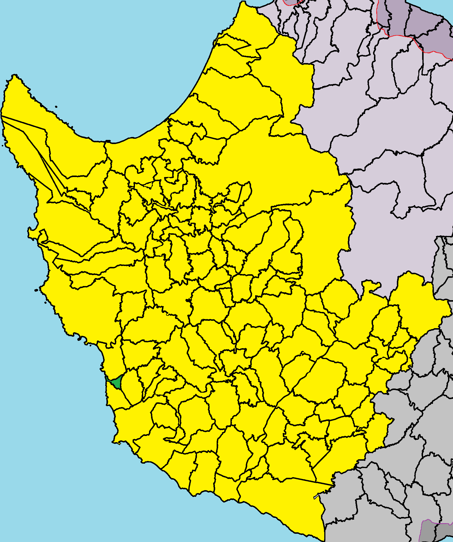 Lempa, Cyprus in Paphos District.